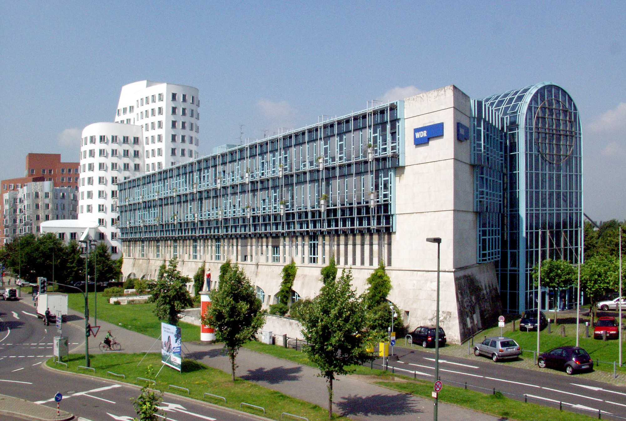 WDR-studio Düsseldorf, Germany